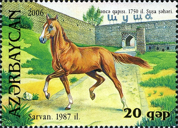 Stamp of Azerbaijan